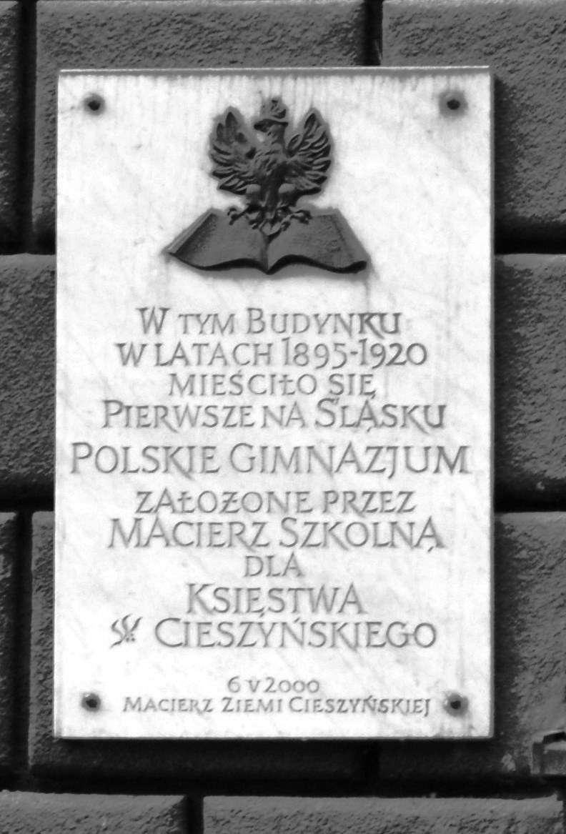 Commemorative plaque on building which housed first Polish secondary school (gimnazjum) in Silesia (1895) Link to full colour image of First Polish School Plaque plus further information and other images